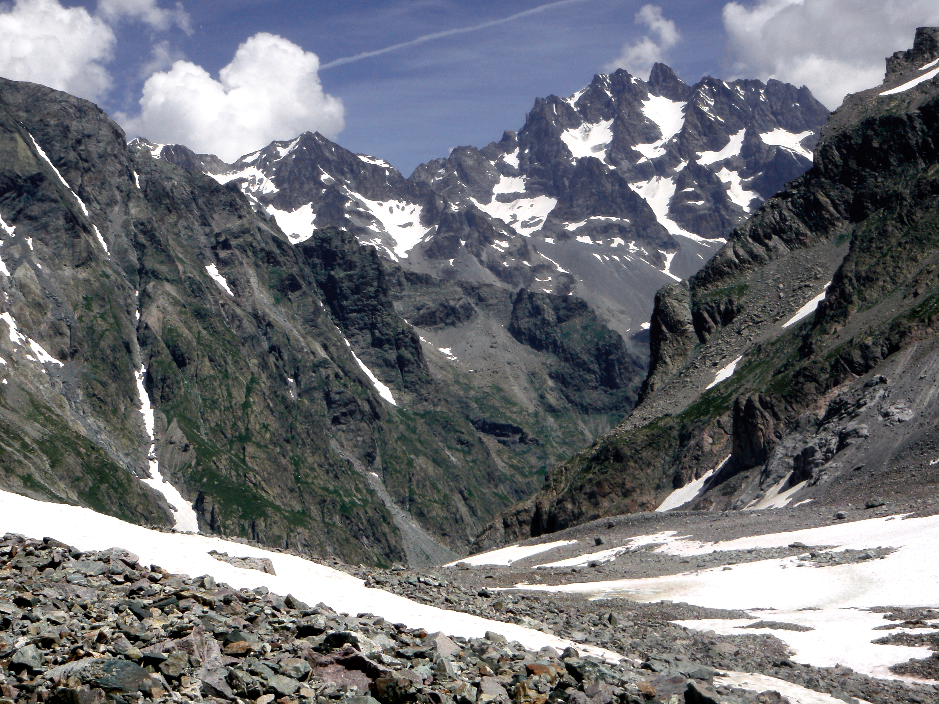 Hiking on Glacier Noir, situated in Hautes Alpes, France. In the background the peaks of Montagne des Agneaux, 3.664m. Photo was taken 12/07/2010.